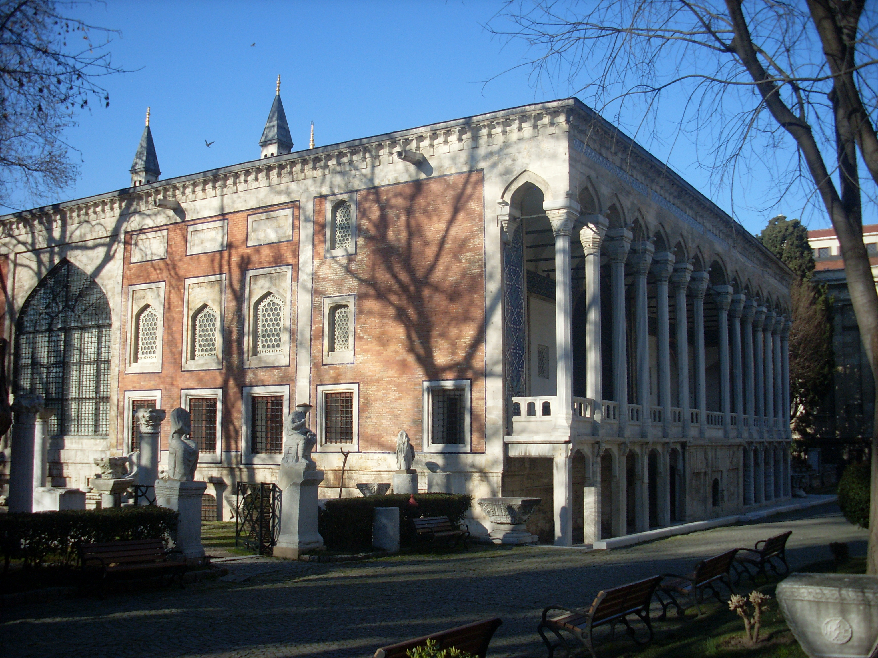 Istanbul Archaeological Museums, Tiled Kiosk - Mar 2013